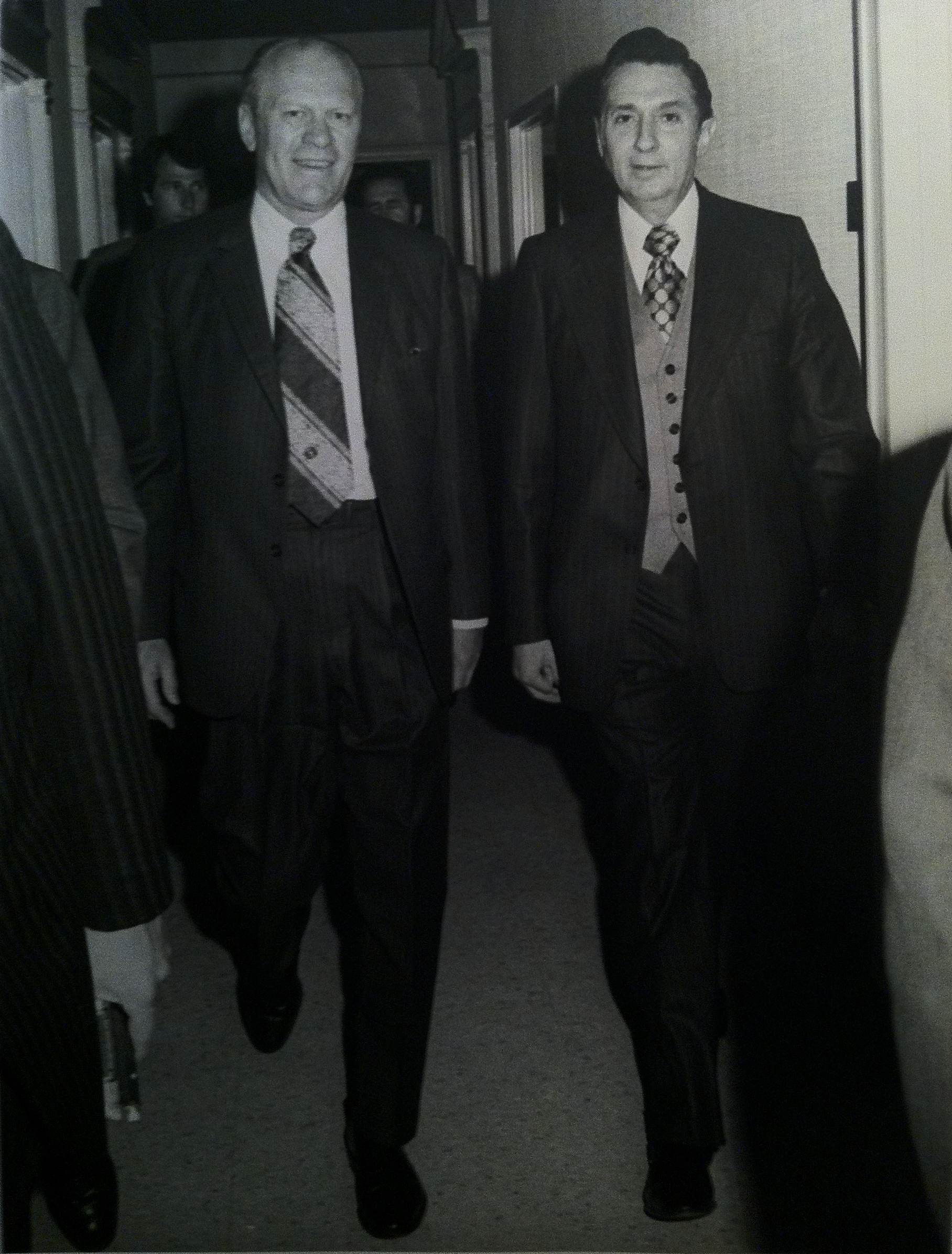 Gerald Ford and Bob Thompson walk through the halls of the US Capitol